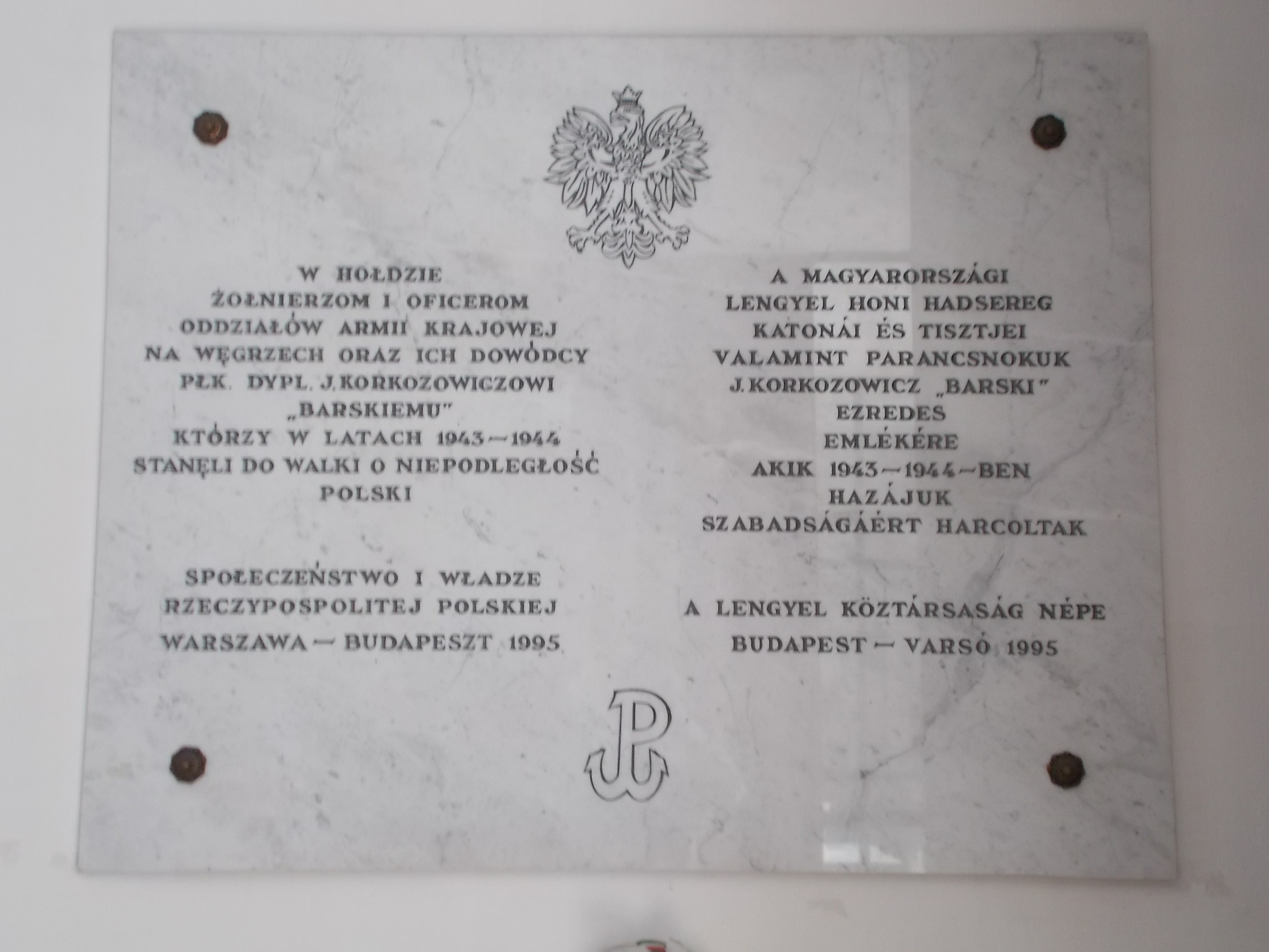 Pesthidegkút Holy Spirit church. Home Army plaque on the church wall. - Máriaremetei út, Remetekertváros neighbourhood, Budapest District II.